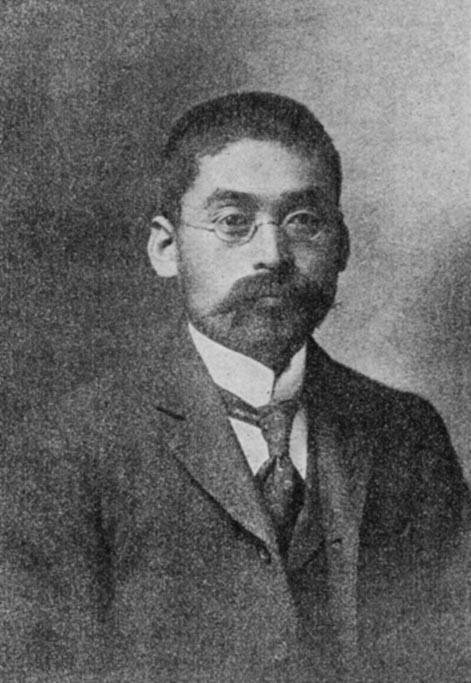 Mr. Seichi Yoshida, professor of the Tokyo Higher Normal School.